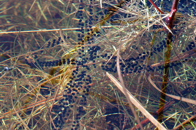 from Commanster, Belgian High Ardennes (50°15'20``N,5°59'58``E)